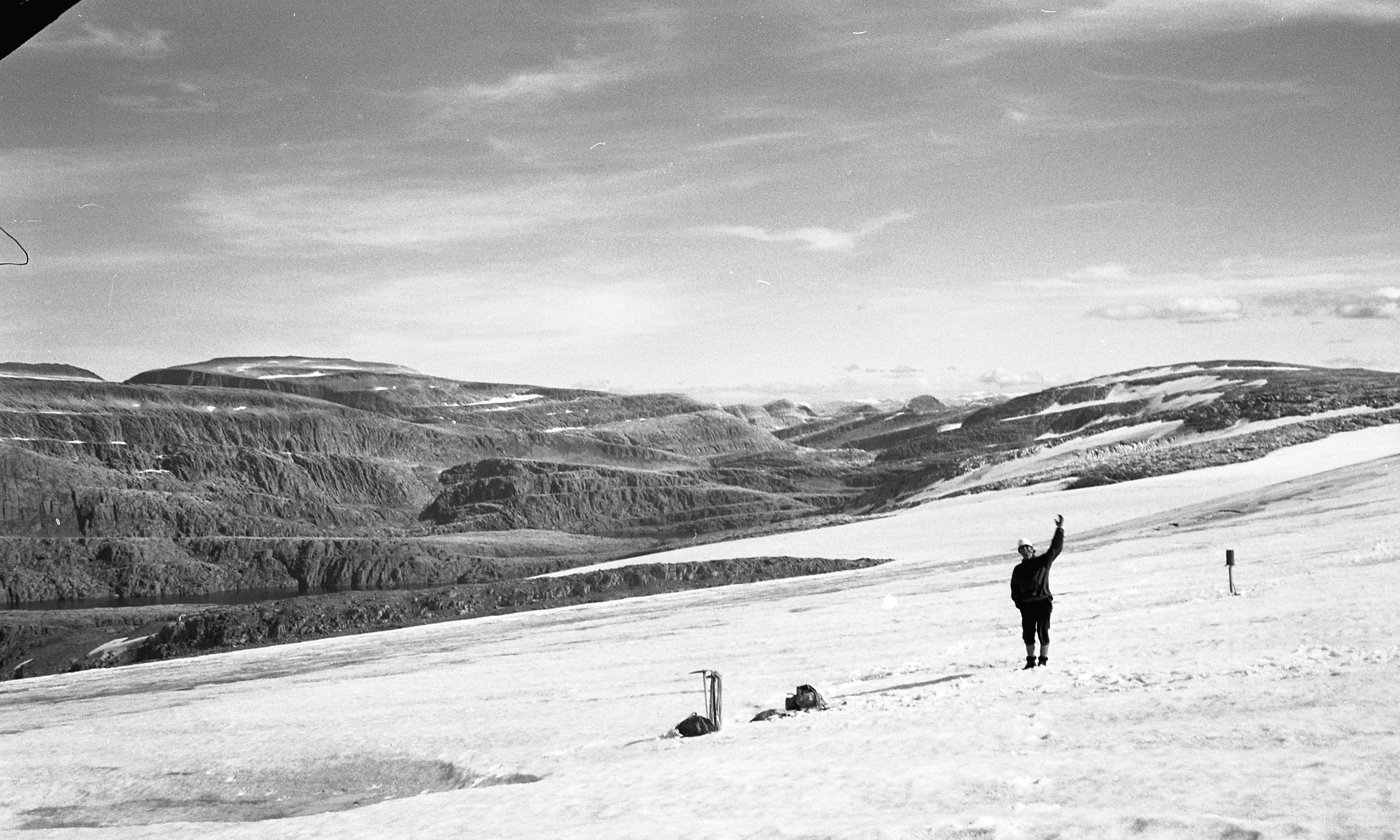 Ålfotbreen mot Gjegnalund sommeren 1966